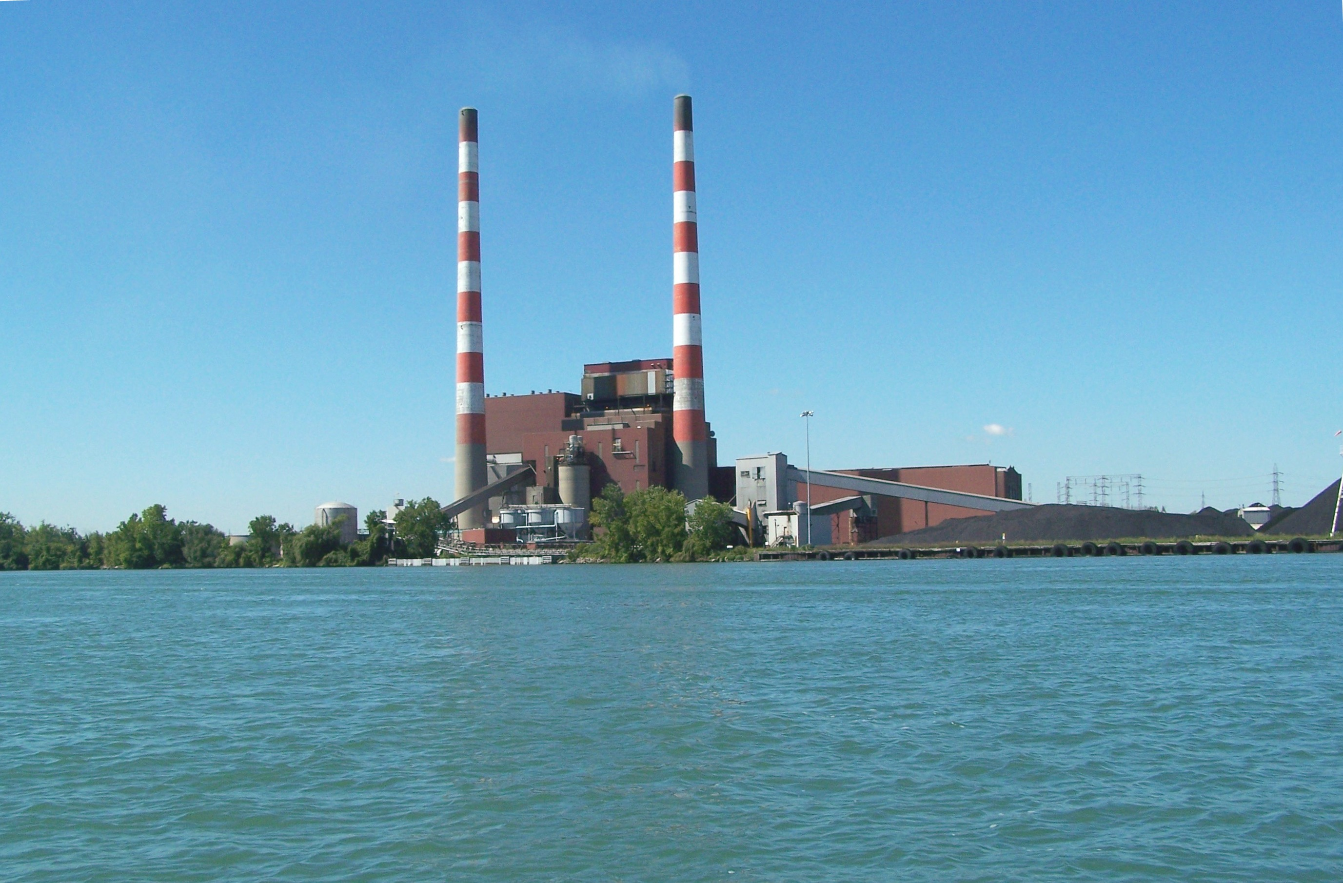 Trenton Channel Power Plant located in Trenton, Michigan